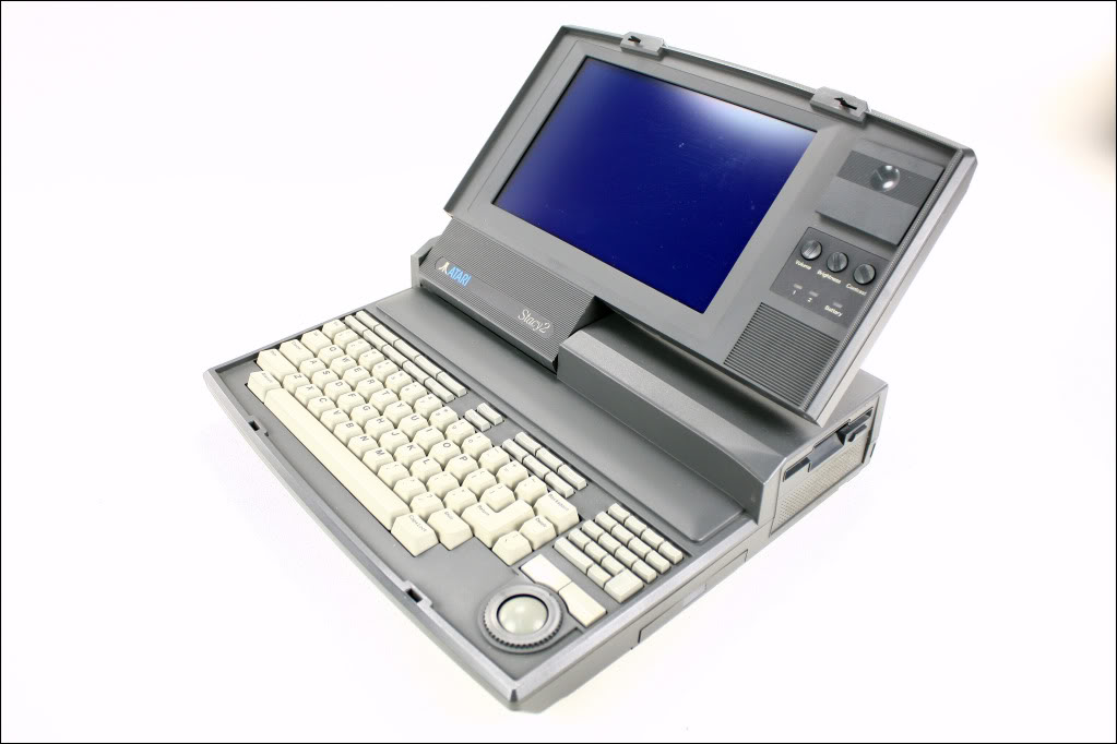 Atari Stacy portable computer.